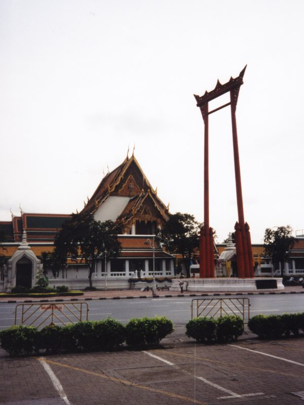 Giant Swing in front of Wat Suthat, Bangkok, Thailand.